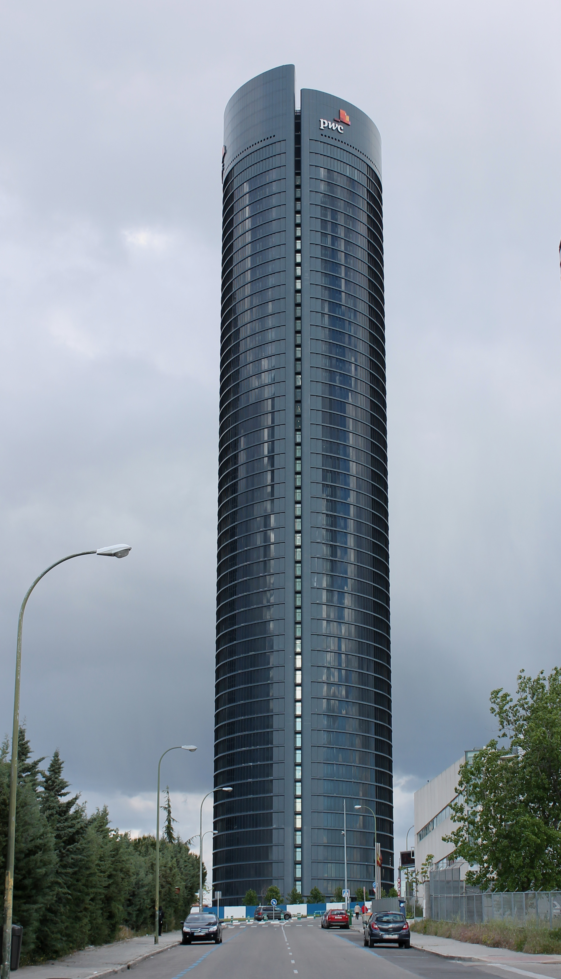 View of PwC Tower in Madrid (Spain).